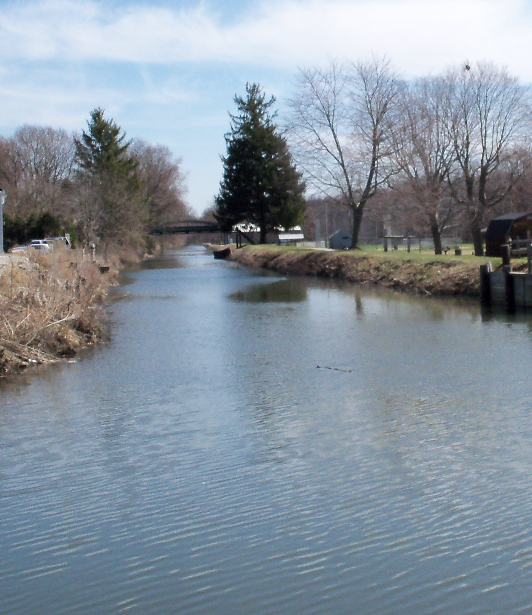 The Ohio-Erie Canal in Canal Fulton at the St. Helena Heritage Park, a site on the nrhp in Stark County, Ohio.